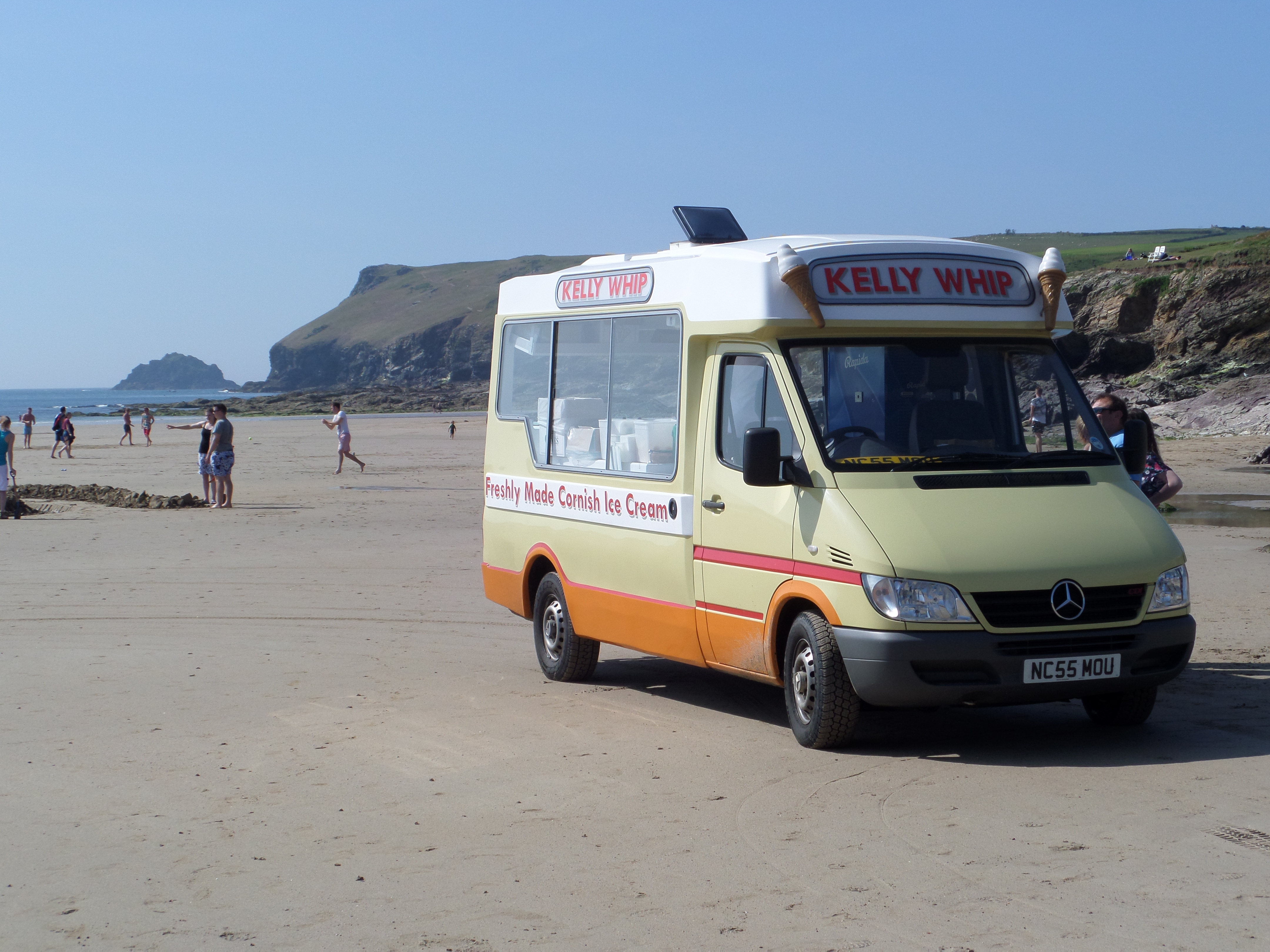 Polzeath Beach, Cornwall. Mercedes Sprinter Kellys Ice Cream Van